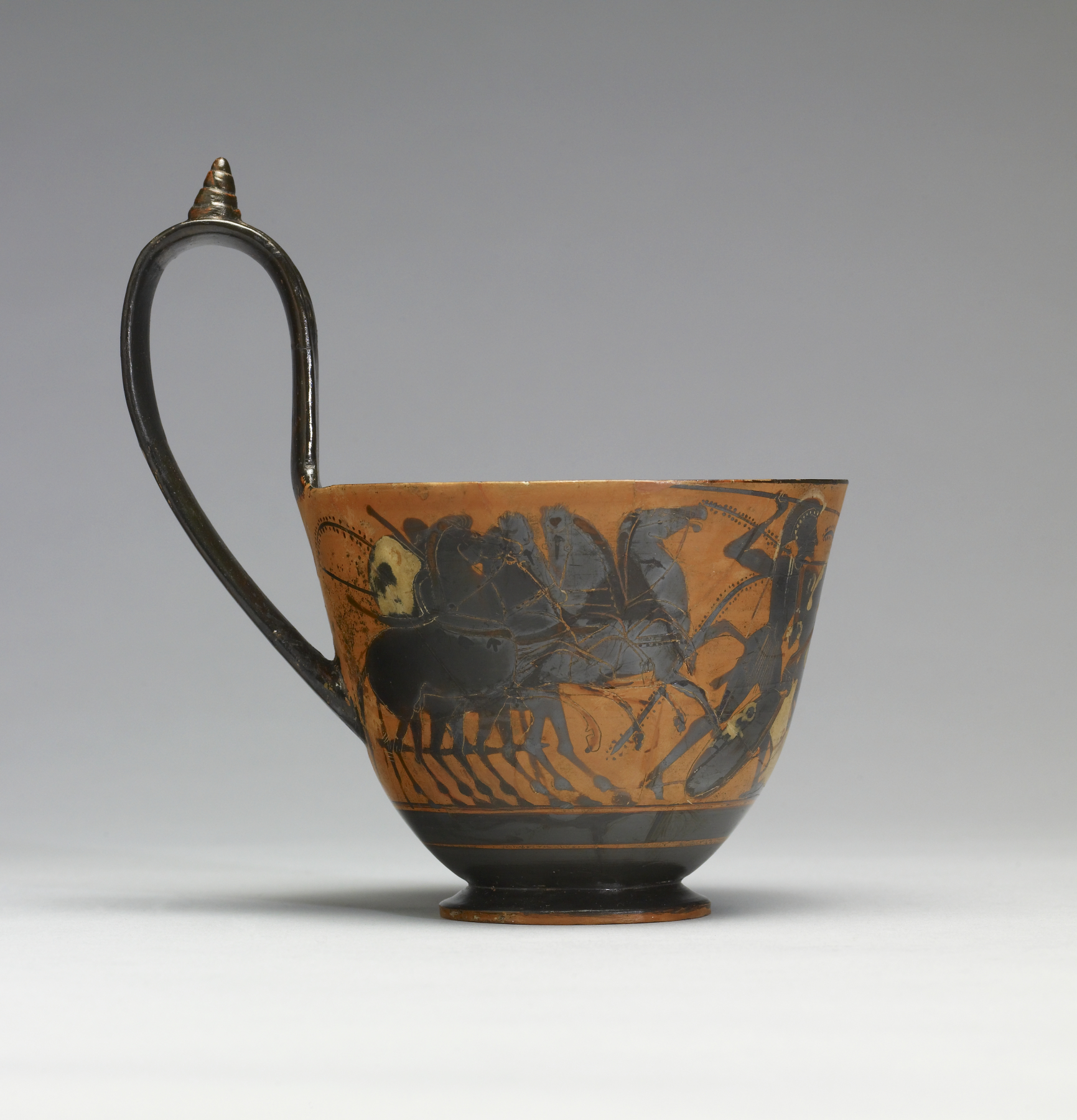 This kyathos depicts a characteristic battle scene: two warriors or heroes fighting over a fallen soldier. Two bearded soldiers attack each other with raised spears and large shields decorated with white motifs and red rims. Their swords hang sheathed at their side. The warrior on the left has knocked his opponent's helmet off his head, while his opponent's spear is pointing at his throat. In between, a third warrior has collapsed on his right knee and uses his spear and shield for support. Unlike the standing fighters in their short skirts, he wears a short white garment belted with a bow. On either side of this central scene, a warrior with a shield is driving to the right in a "quadriga" (a four-horse chariot). Without identifying attributes or inscriptions, the warriors depicted could be ordinary soldiers in battle or Greek heroes fighting at Troy. The scene of two warriors fighting over the body of a fallen soldier is a familiar episode from accounts of the Trojan War; the recovery of the body and the armor of a dead comrade was crucial. Even if the warriors depicted on this vessel are ordinary Greeks, the imagery recalls the glory of the heroic warriors of the past.